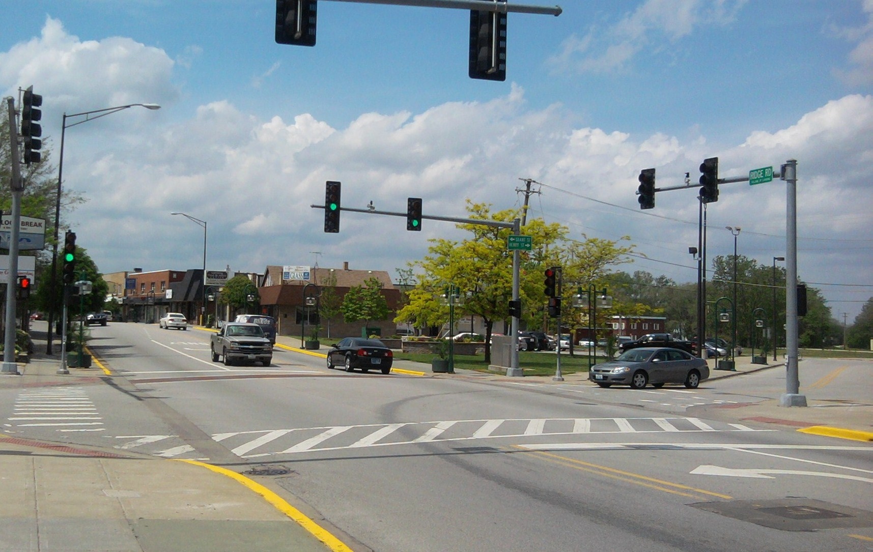 Ridge Road in downtown Lansing, Illinois, looking west